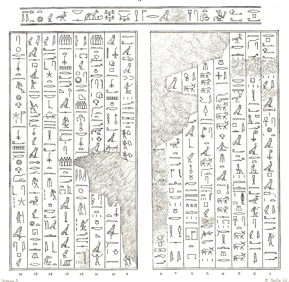 Drawing of a wall of Tomb 3 at Asyut, belonged to the nomarch Tefibi (or more correctly Itj-ibj), vassal of the 10th Dynasty rulers.